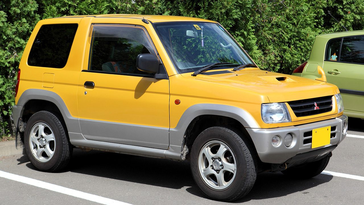 Second generation Mitsubishi Pajero Mini X